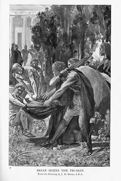 Illustration of Brian seizing the pig-skin by J.H.F. Bacon. From: Squire, Charles (n.d.), “Chapter 8: The Gaelic Argonauts”, in Celtic Myth And Legend Poetry And Romance, London: Gresham Publishing Company, page 100. Originally published under the title The Mythology of the British Islands, London: Blackie and Son, 1905.